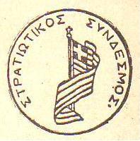 Stamp of the Greek secret organization of military officers Stratiotikos Syndesmos (Military League) Στρατιωτικός Σύνδεσμος 1908-1910